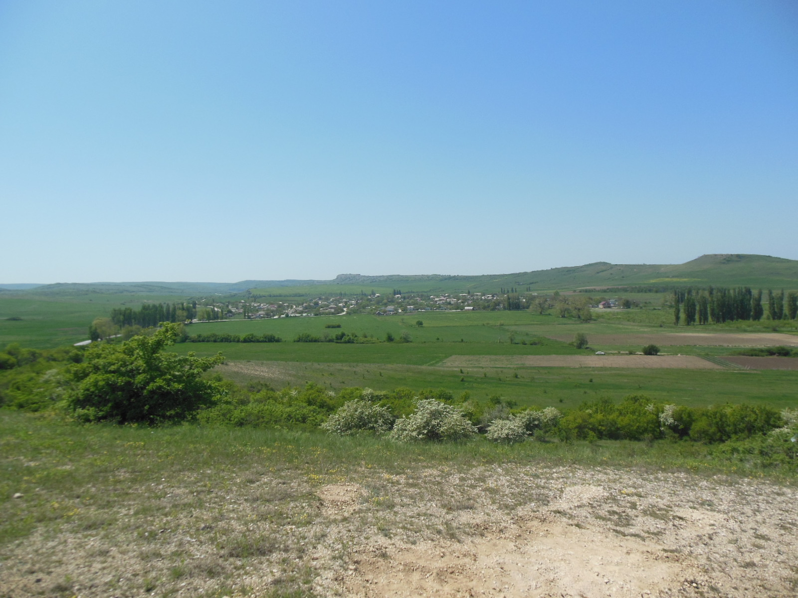 The village of Balki, Belogorsky region, Crimea.